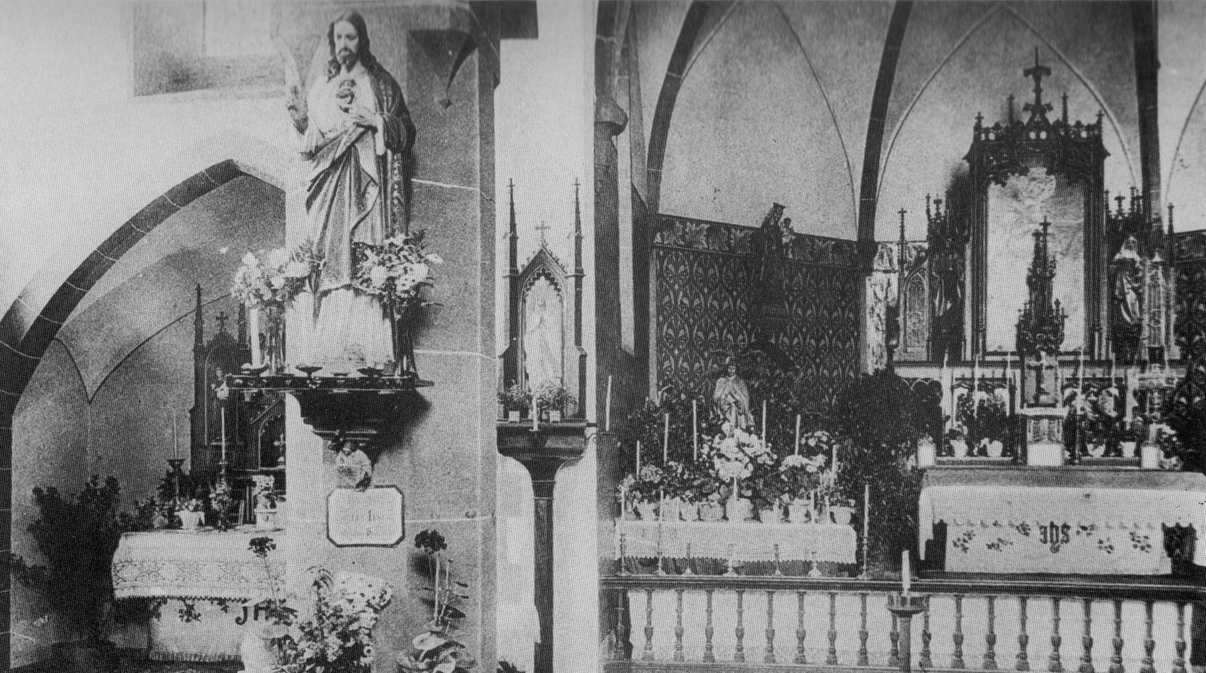 The old catholic church in Bad Soden am Taunus